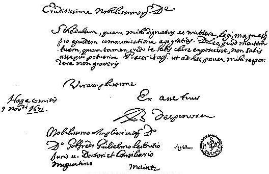 Spinoza's letter to Leibniz, The Hague 9 November 1671. Translation: Very learned and noble Sir, Thank you for your letter which I have read. I am sorry i could not convince you with my (so I thought) rather clear exposition. Please answer these few words. Your honour, All yours, B. despinoza Google "doleo quod mentem" found this similar but much longer letter by Spinoza of the same day. (Google Books Benedicti de Spinoza Adnotationes ad Tractatum theologico-politicum. Ex ...)